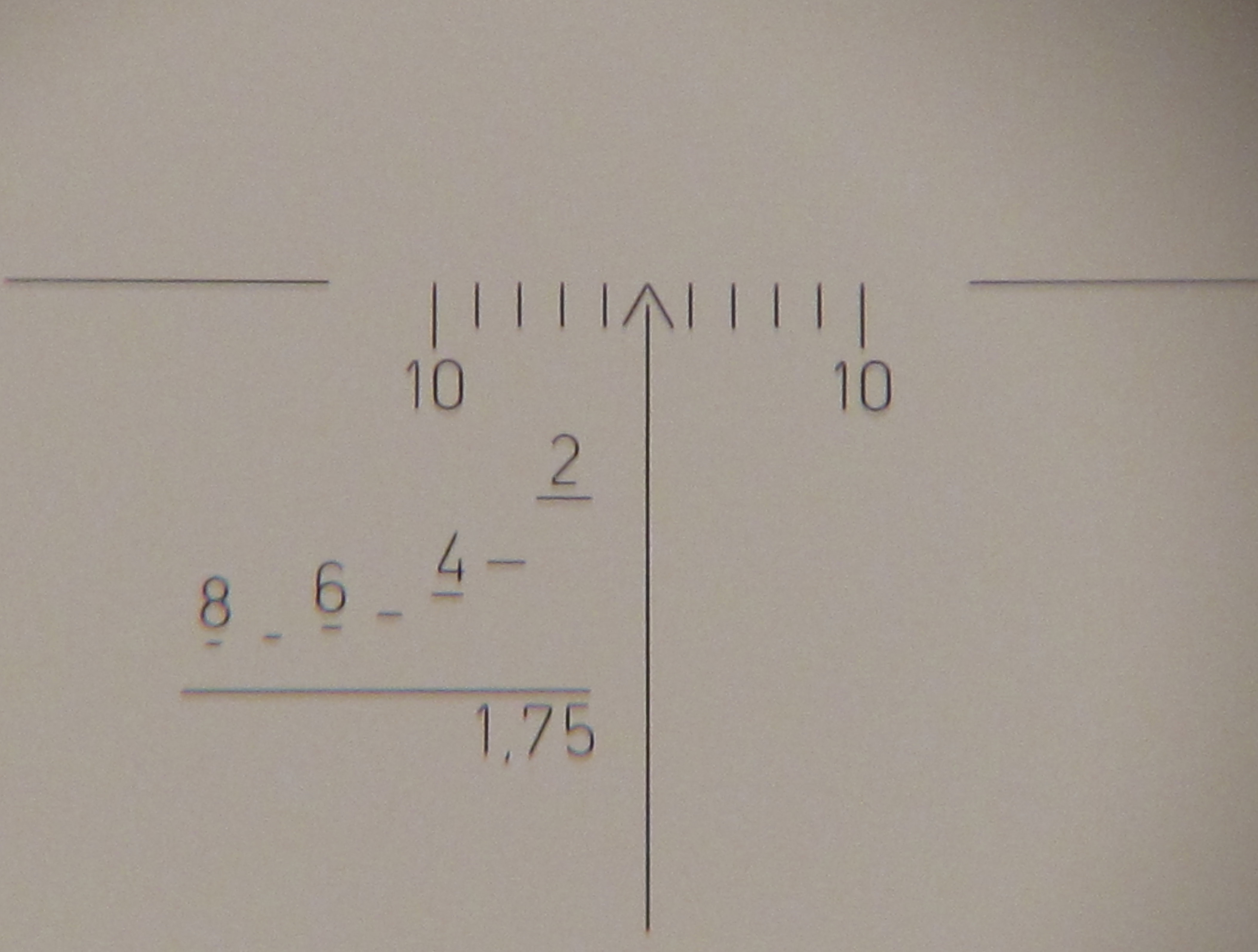 Zrak ON-M76B reticle.